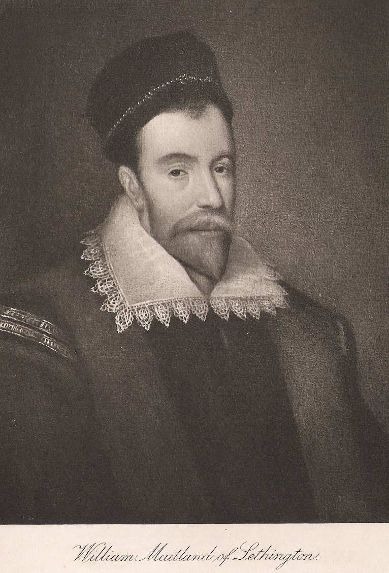 Frontplate in Maitland of Lethington, by E. Russell, London, 1912.